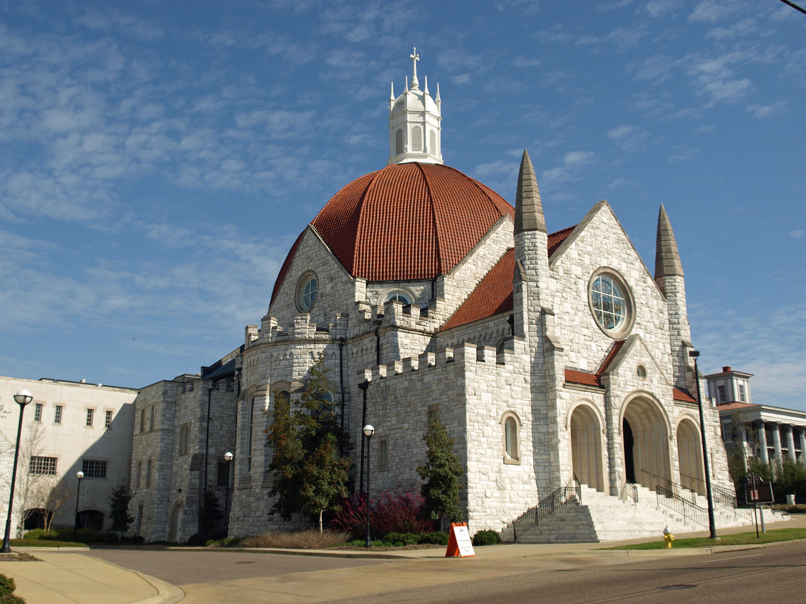 First Baptist Church, part of the Perry Street Historic District in Montgomery, Alabama